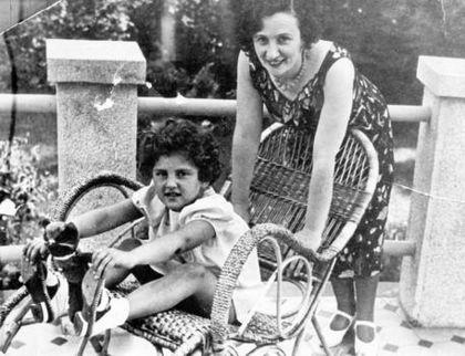 Yevgenia Ezhova (nee Feigenberg, Hayutina by her first husband, Gladun by second; 1904-1938) pictured with adopted daughter Natasha Hayutina. Second wife of soviet NKVD chief Nikolai Yezhov (1895-1940).